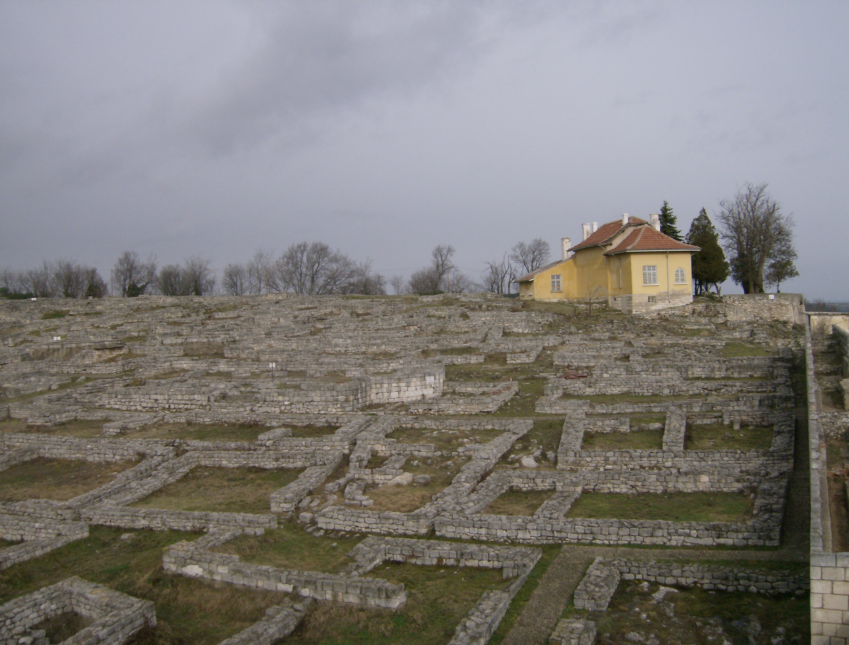 Shumen Fortress